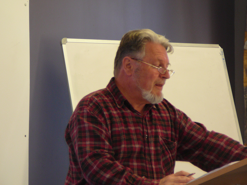 New Zealand politician Paul Piesse. Taken at the Alliance Party conference in October 2007.